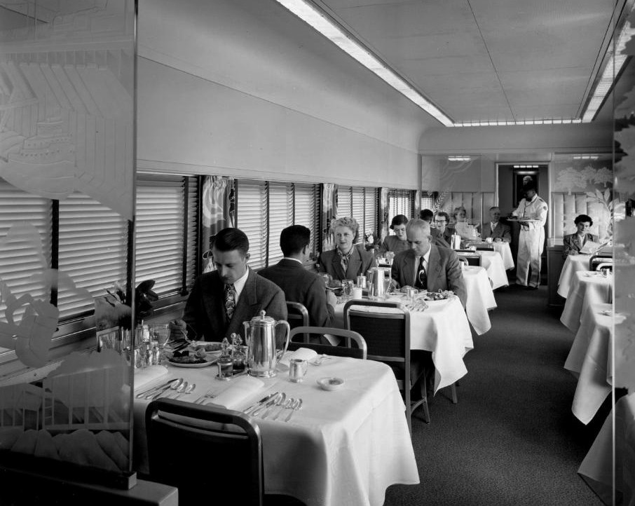 Photo of the dining car of the Empire Builder. The train was re-done in 1951.